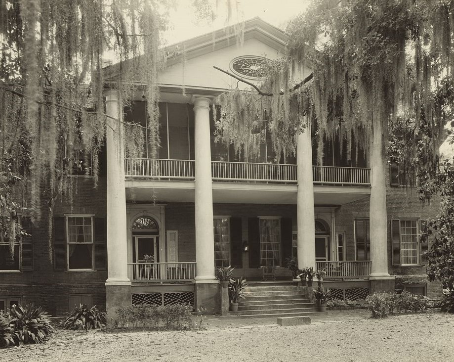 Title Gloucester, Natchez, Adams County, Mississippi Contributor Names Johnston, Frances Benjamin, 1864-1952, photographer Created / Published 1938. Subject Headings - United States--Mississippi--Adams County--Natchez - Bull's eye windows. - Spanish moss. - Pediments. - Porticoes (Porches). - Fanlights. - Doors & doorways. - Columns. - Houses. - Mississippi--Adams County--Natchez Format Headings Photographic prints. Notes - Title from photographer's inventory. - Originally known as Bellevue. Built by David Williams family. Winthrop Sargent, first governor of Miss., bought it from the Williams in 1808. Unusual feature is dry moat around basement, formerly fenced with iron pickets. - Building/structure dates: ca. 1800. - Corresponding Carnegie Survey of the Architecture of the South neg. no. 1037. Library has no record of having this neg. - Forms part of: Carnegie Survey of the Architecture of the South (Library of Congress). Medium 1 photographic print. Call Number/Physical Location LOT 12634 [item] [P&P] Repository Library of Congress Prints and Photographs Division Washington, D.C. 20540 USA Digital Id ppmsca 23946 //hdl.loc.gov/loc.pnp/ppmsca.23946 ppmsca 23954 //hdl.loc.gov/loc.pnp/ppmsca.23954 cph 3c15699 //hdl.loc.gov/loc.pnp/cph.3c15699 Control Number csas200907160 Reproduction Number LC-DIG-ppmsca-23946 (digital file from print) LC-DIG-ppmsca-23954 (digital file from exhibition print in LOT 12677) LC-USZ62-115699 (b&w film copy neg.) Rights Advisory No known restrictions on publication. Online Format image Description 1 photographic print.